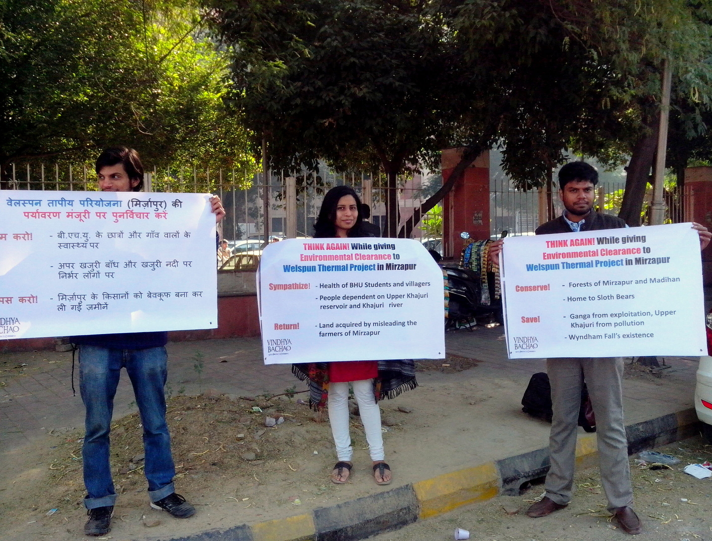 Members of Vindhya Bachao protesting in New Delhi against the Mirzapur Thermal Power Plant of Welspun Energy outside the SCOPE Complex where the Ministry of Environment and Forests, government of India was meeting to discuss recommendation of Environmental Clearance to the project on 18th November, 2013.